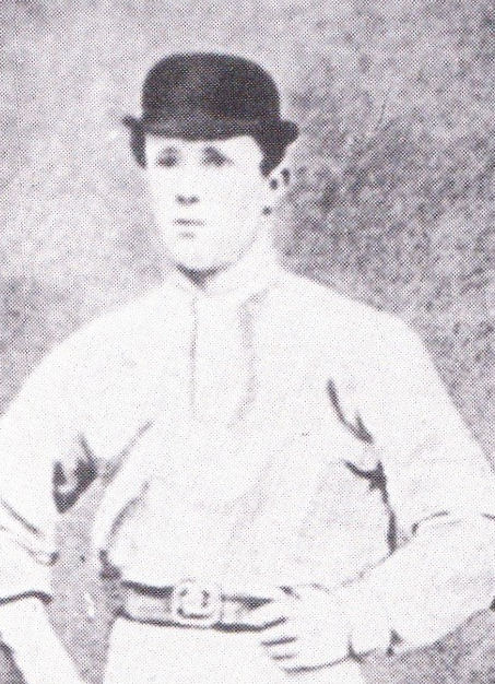 Photograph of cricketer Thomas Humphrey from 1865